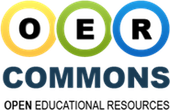 OER Logo